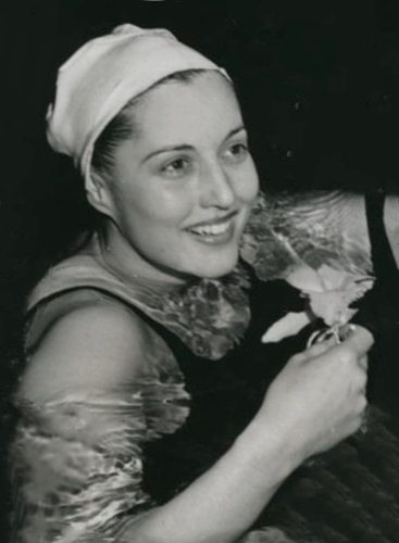 1948 Press Photo Brenda Helser and Marilyn Sahner hope to make Olympic swim team